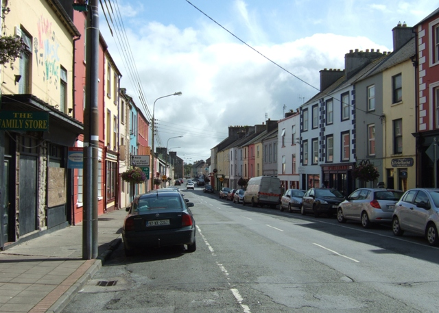 Moore Street Looking down the N67 away from Kilrush town centre.